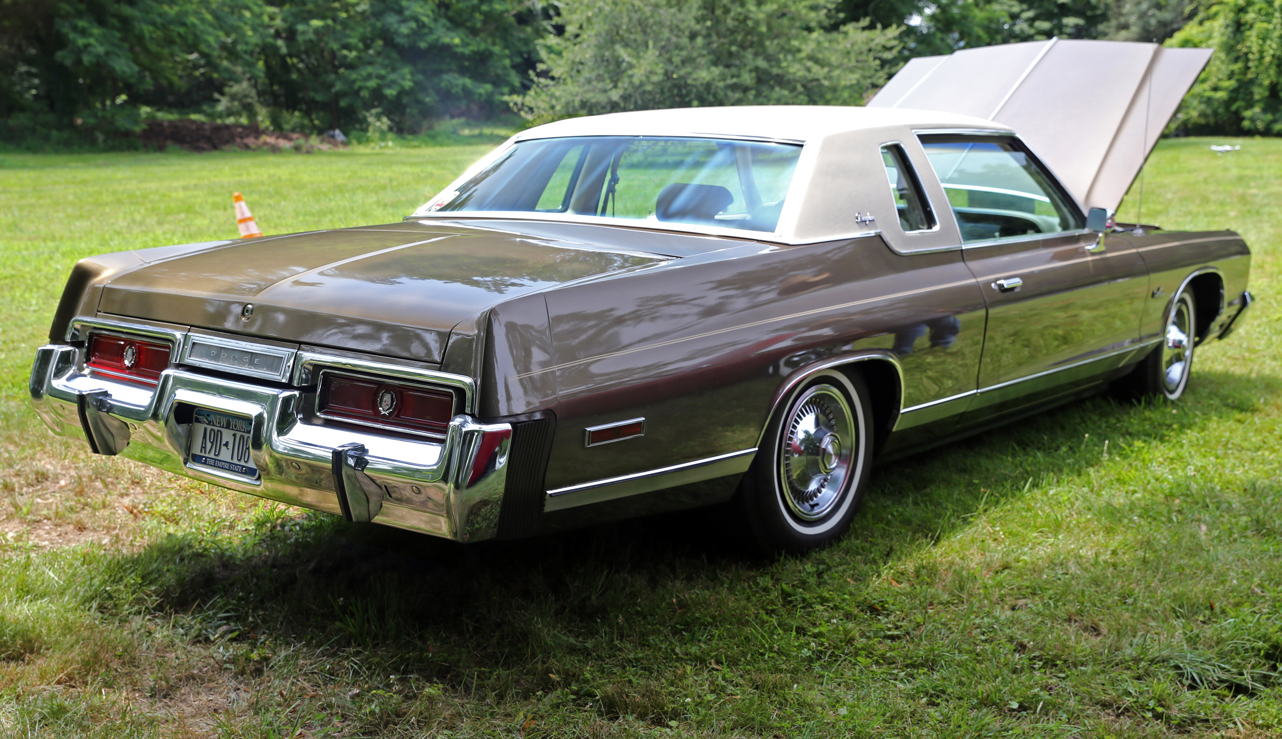 A 1974 Dodge Monaco 2-door hardtop, original, brown, and unrestored. 360-2V V8 engine, assembled in Belvedere, IL.